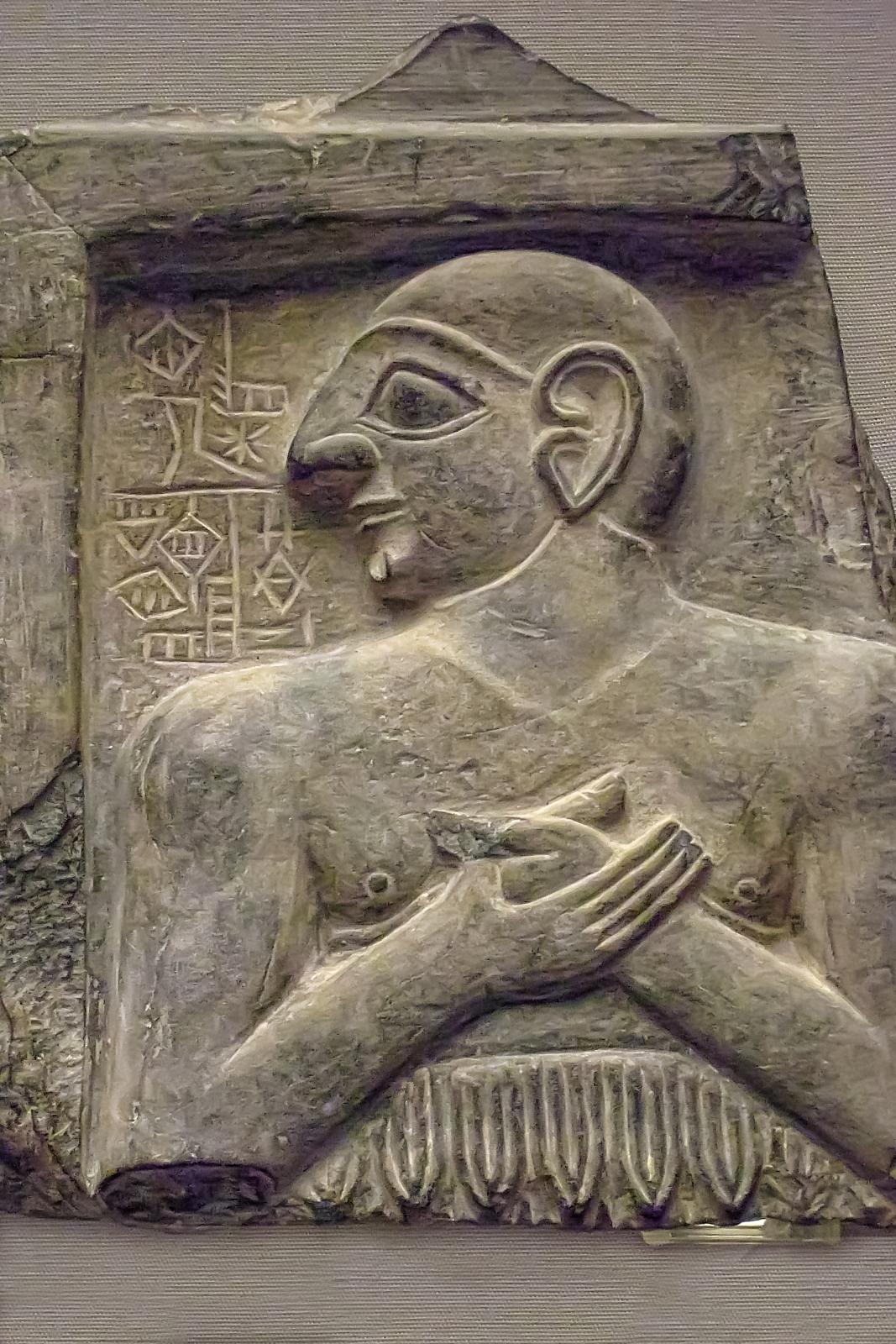 Photographed at the British Museum in London, England.